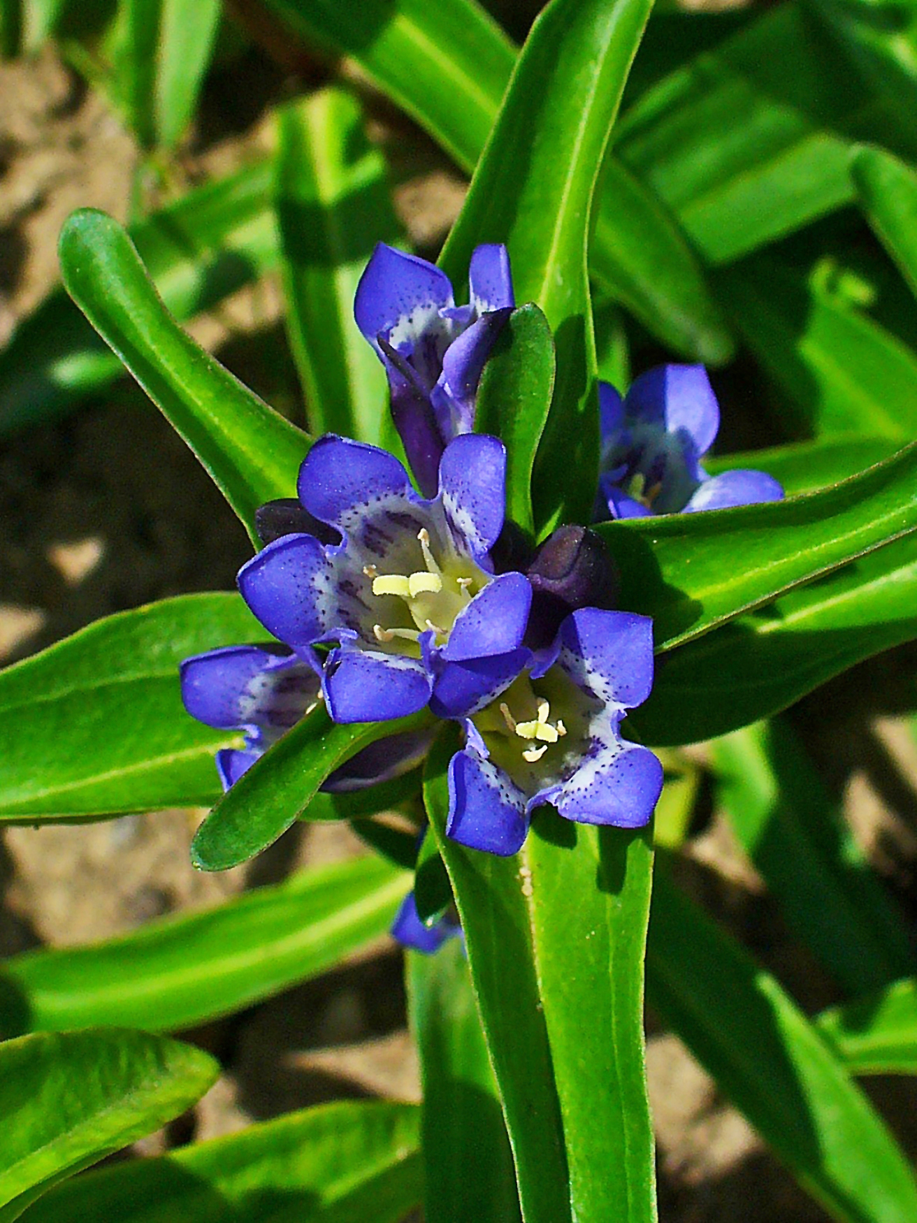 Gentiana cruciata, Gentianaceae, Cross Gentian, inflorescence; Botanical Garden KIT, Karlsruhe, Germany. The fresh, underground parts of the plant are used in homeopathy as remedy: Gentiana cruciata (Gent-c.)